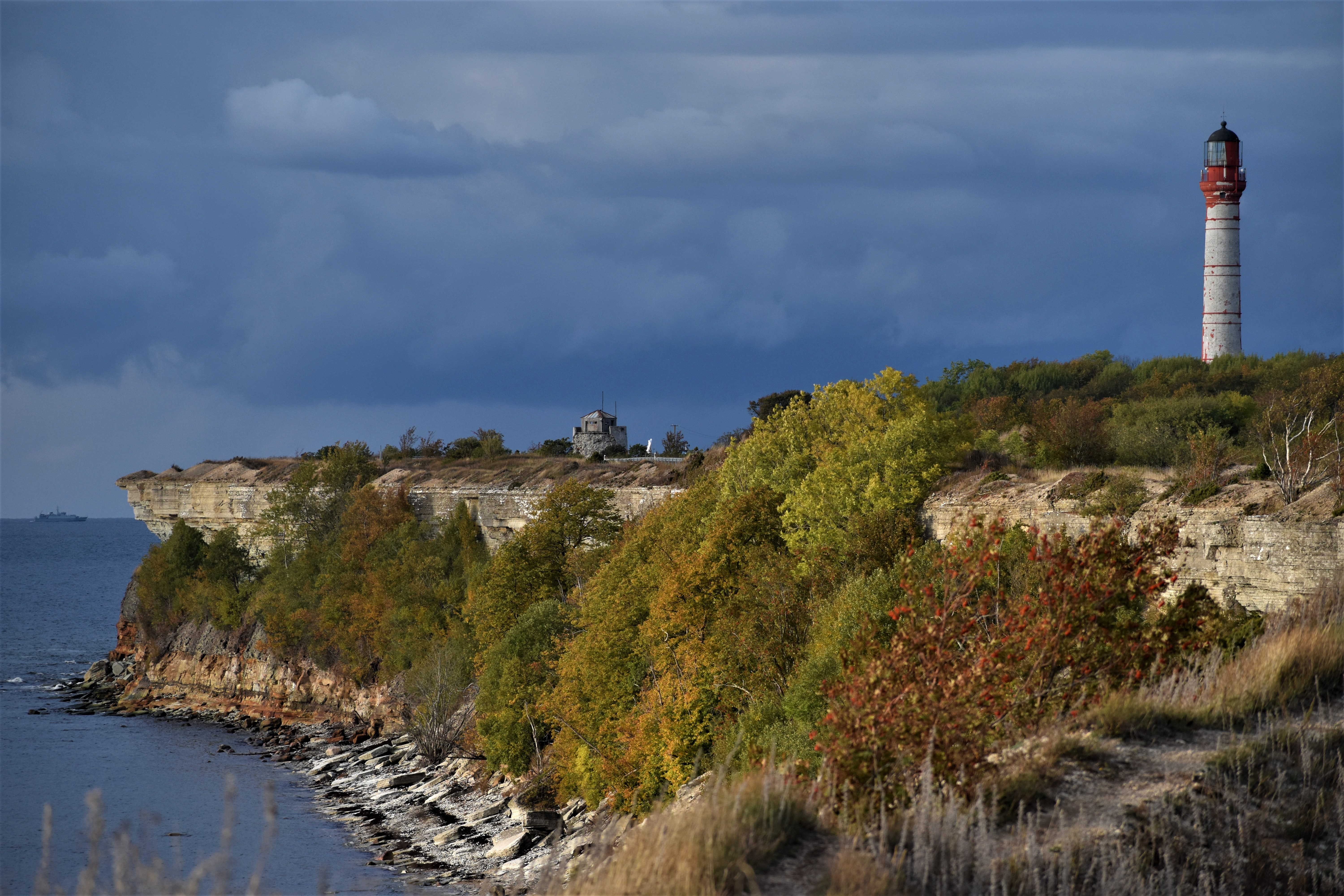 Paldiski old and new lighthouse